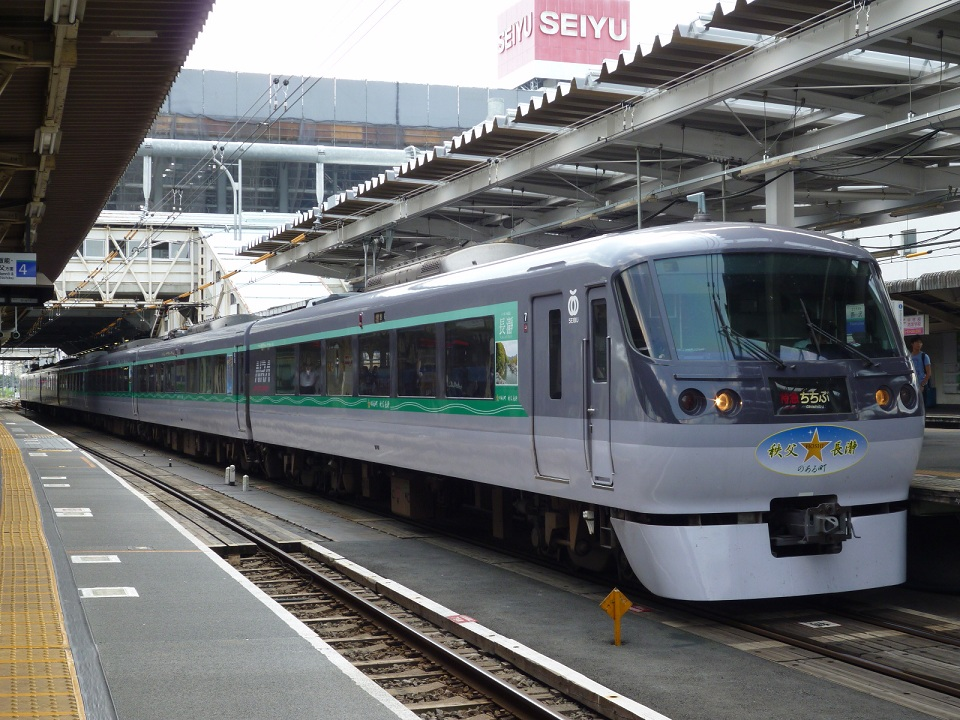 Seibu Railway 10000 series EMU set 10107 in Nagatoro advertising livery